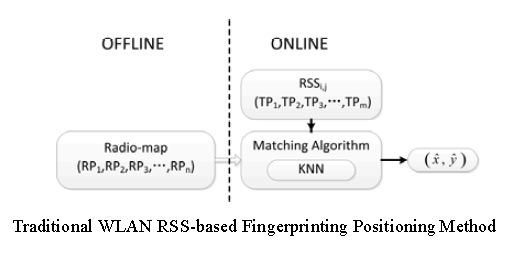 Positionning method fingerprinting-based with WLAN and RSS